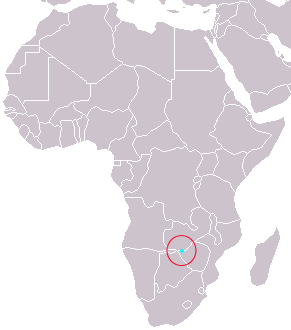 Victoria Falls location in Africa